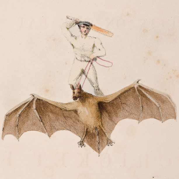 Frontispiece of Felix on the Bat; Being a Scientific Inquiry into the Use of the Cricket Bat; Together with the History and Use of the Catapulta. Also, the Laws of Cricket, as Revised by the Marylebone Club 1845, by Nicholas Felix (Nicholas Wanostrocht)